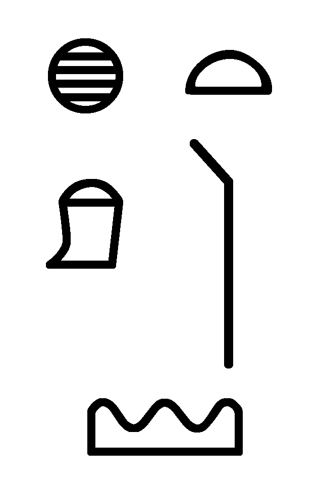 Merenptah Stele (Israel Stele): the name Hatti written in hieroglyphs as it appears on the stele (mirror view) in line 26 (context: Hatti is pacified). Transliteration: x-t-tA (placenta/ball of string-bun-potter's kiln) plus determinatives: enemy-foreign land (throwing stick-three hills). In WikiHiero the text is represented by Aa1*X1:U30*T14:N25